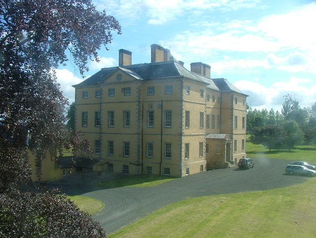 Mellville House This photo was taken from the houses 'tree house' walkway.